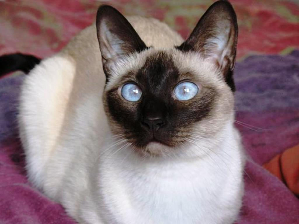 A two-year-old seal point "traditional" Siamese cat.